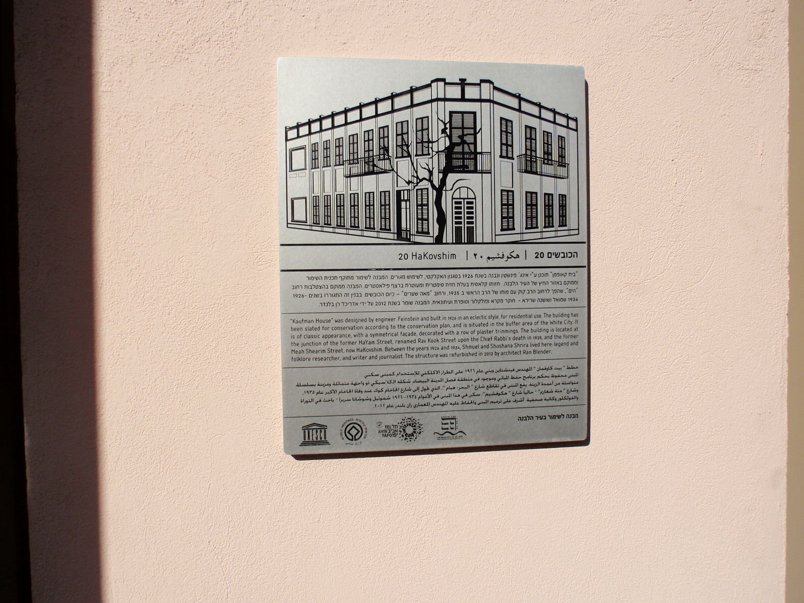 A memorial sign on the residence of Shoshana Sharira, Tel-Aviv, Hakovshim 20.